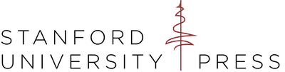 The Stanford University Press "squiggle tree" colophon, created by the Press's Art Director, Rob Ehle in 2013.